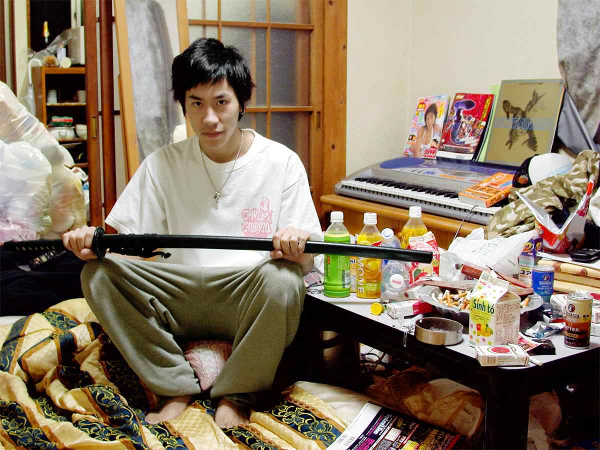 Hikikomori , Hiasuki, 2004